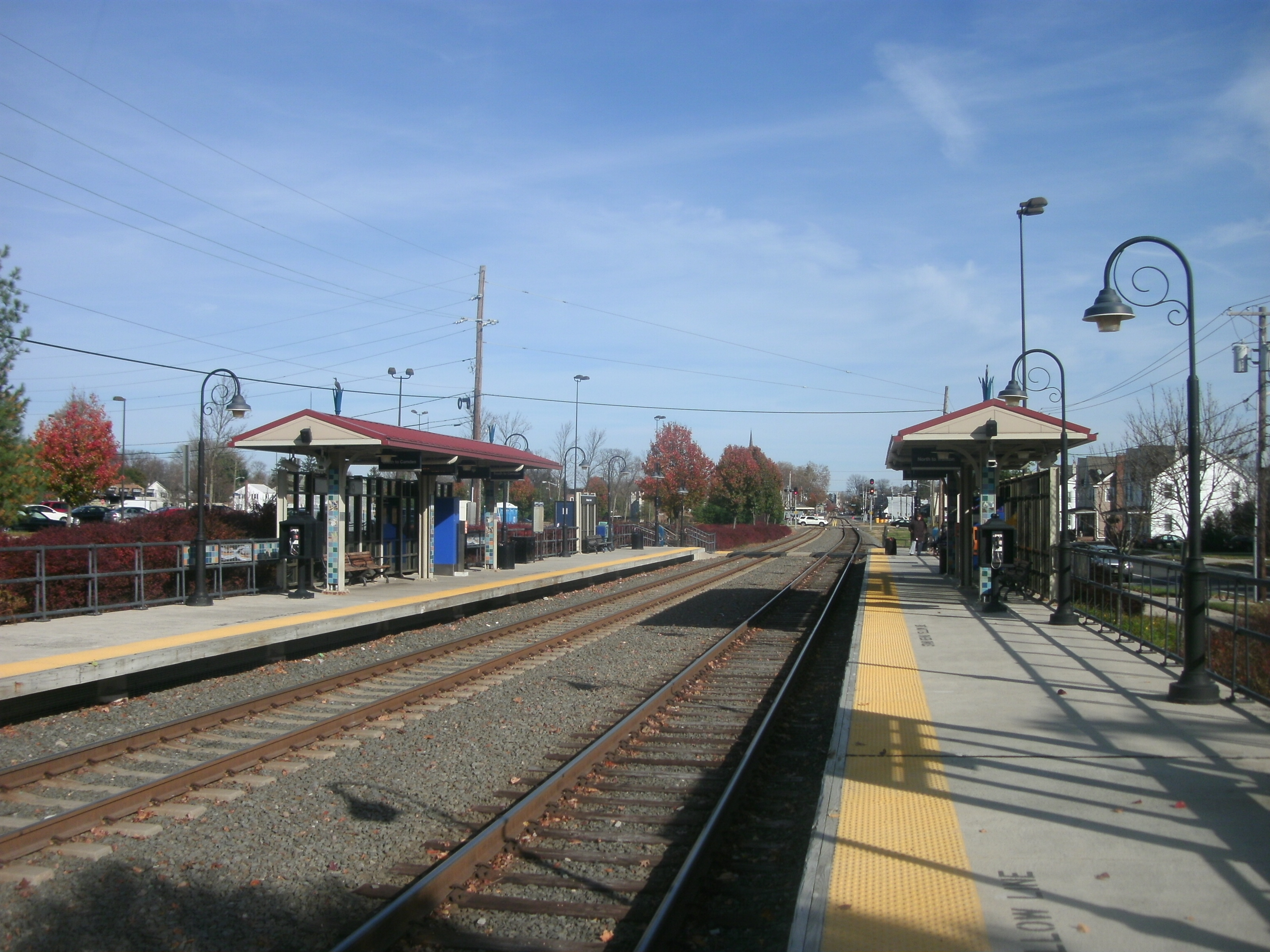 The River Line station named Burlington South for NJ Transit.